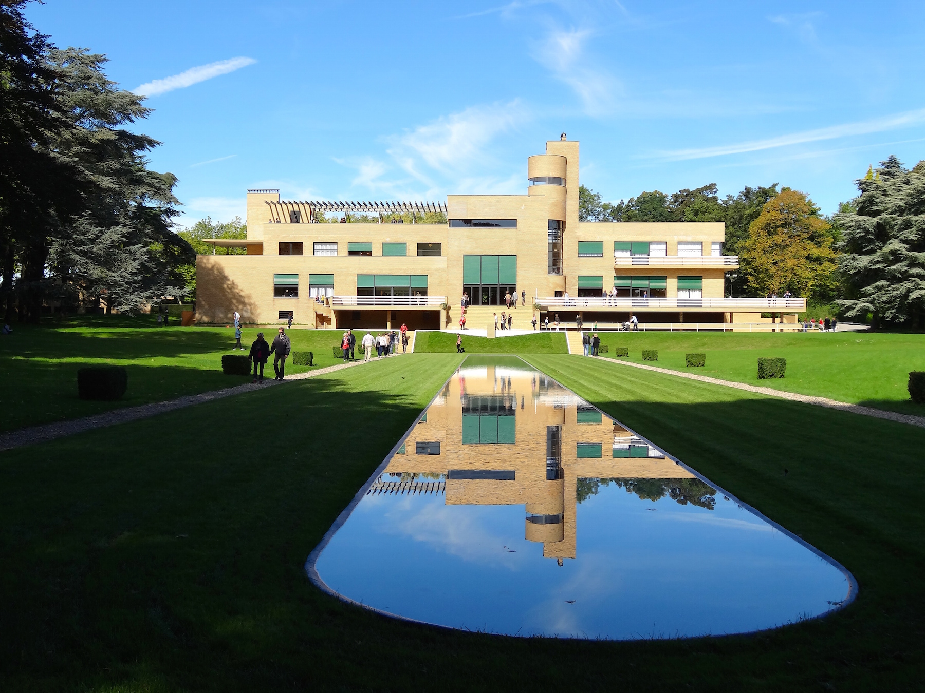 Villa Cavrois south front with reflecting pool